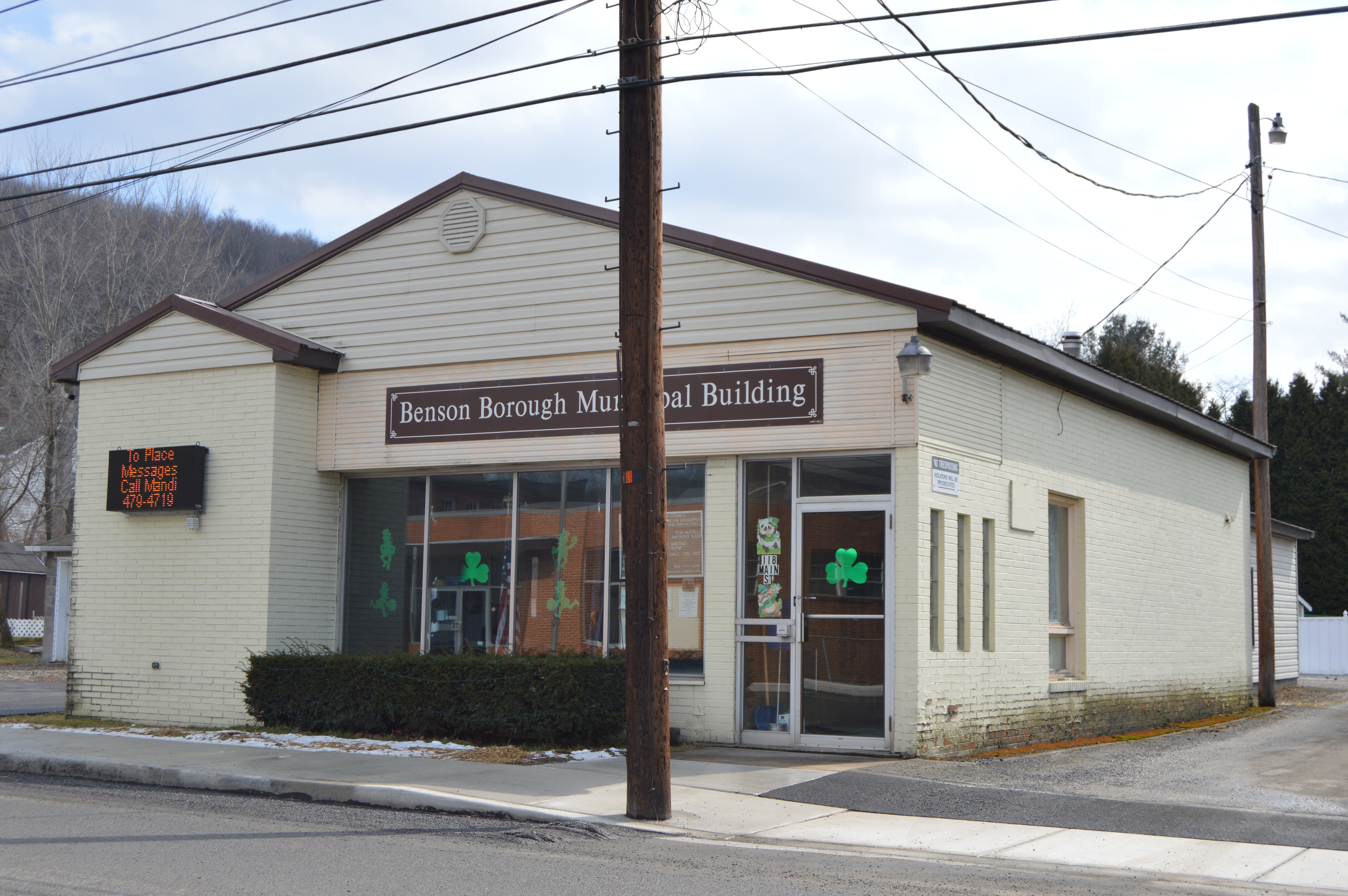 Western side and front of the Benson municipal building, located at 118 Main Street (Pennsylvania Route 403) in Benson, Pennsylvania, United States.